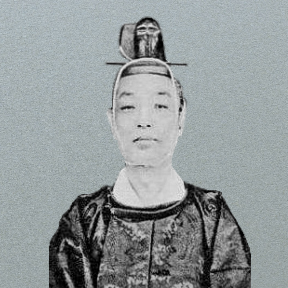 H.I.H. Prince Kuni Asahiko